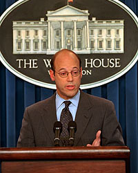 Ari Fleischer conducting a White House press conference